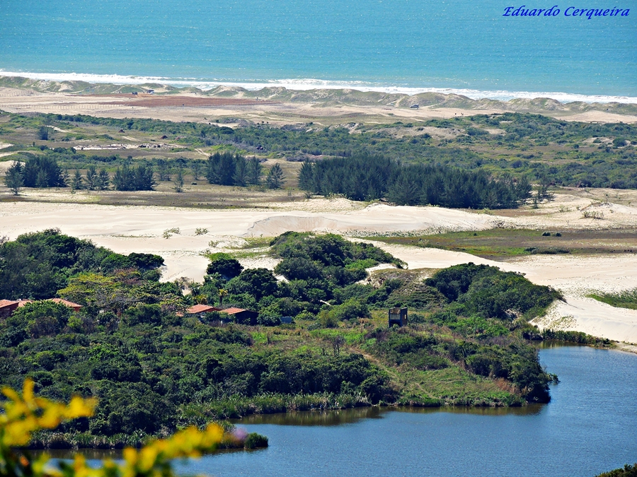 Por quanto tempo ainda... Dunas do Peró, em Parque Estadual da Costa do Sol, Cabo Frio-RJ por Eduardo Cerqueira dos Santos